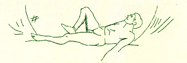 Hannes Bok's illustration for Futuria Fantasia, no. 2's feature, "The Pendulum," by Ray Bradbury